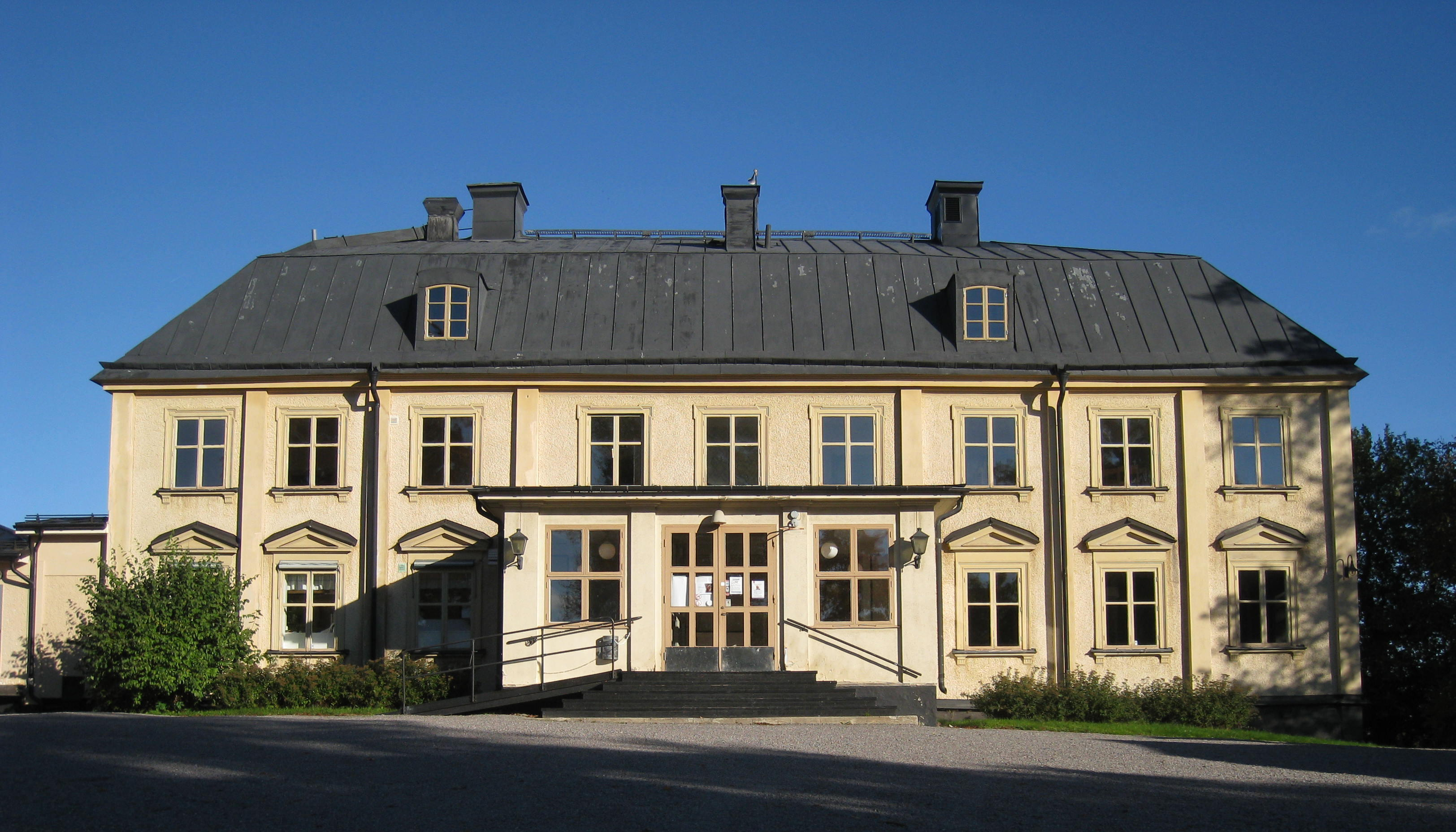 Folk high school Jakobsberg, Järfälla municipality, Sweden